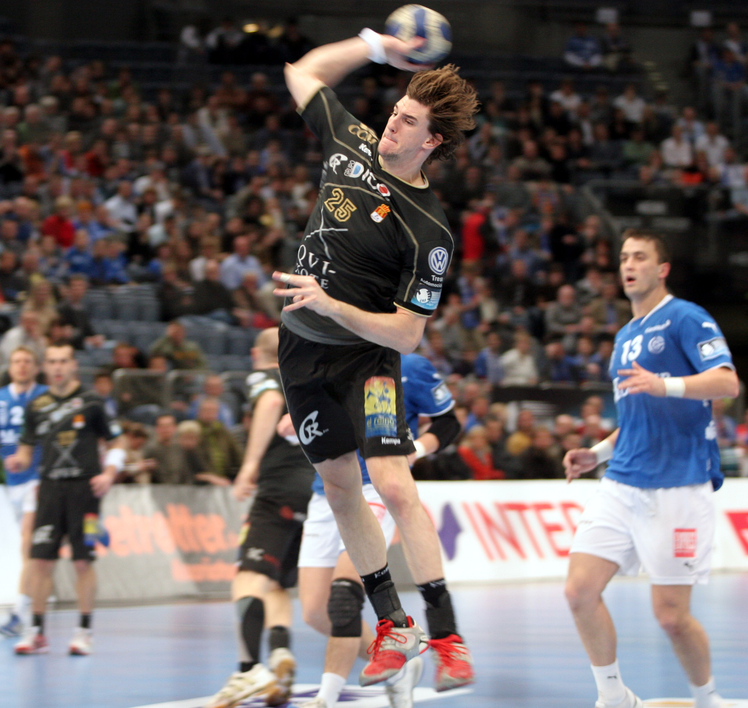 Viran Morros,, handball player of BM Ciudad Real (Spain), in the Kölnarena prior the champions league game VfL Gummersbach vers. BM Ciudad Real on February 20th, 2008